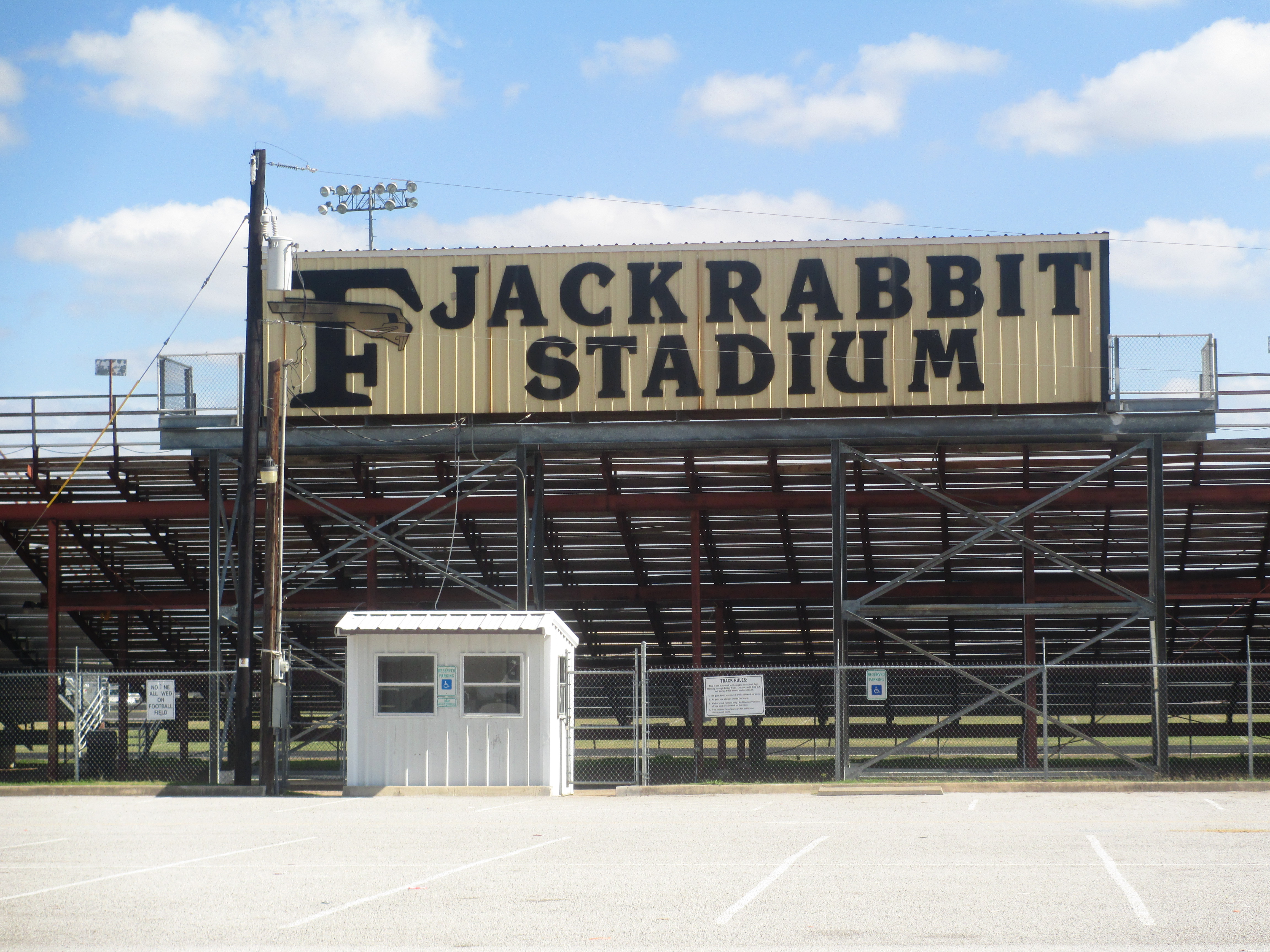 I took photo with Canon camera of Jackrabbit Stadium in Forney, TX.